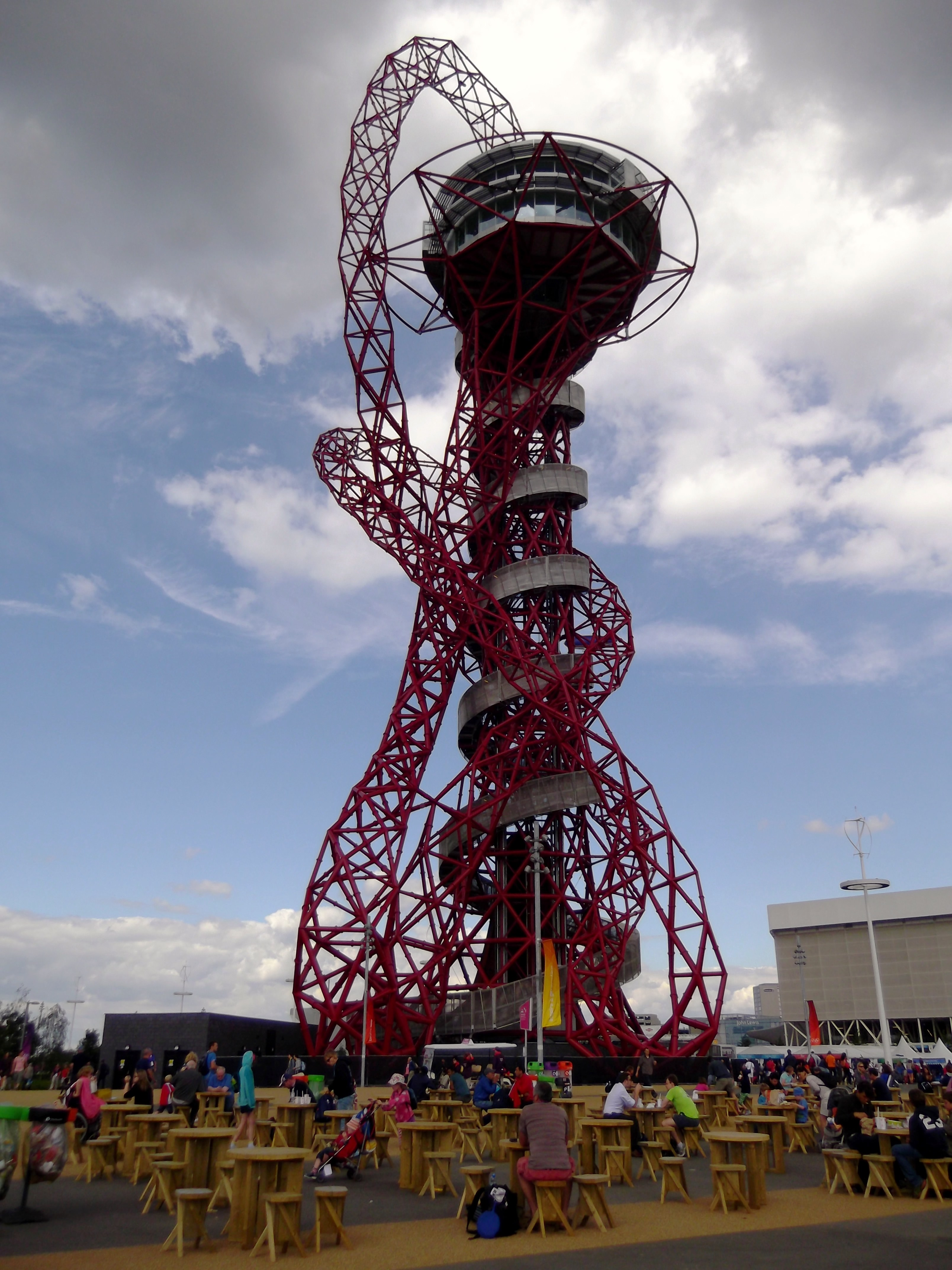 London 2012 Olympics 191